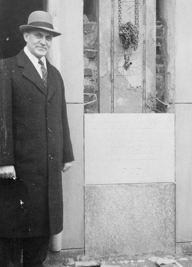 Dr. Francis W. Reichelderfer, head of the U.S. Weather Bureau from 1938 to 1963, laying the cornerstone of a new weather service building in 1940.